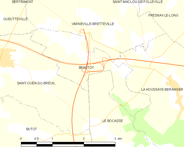 Map of French municipality Beautot